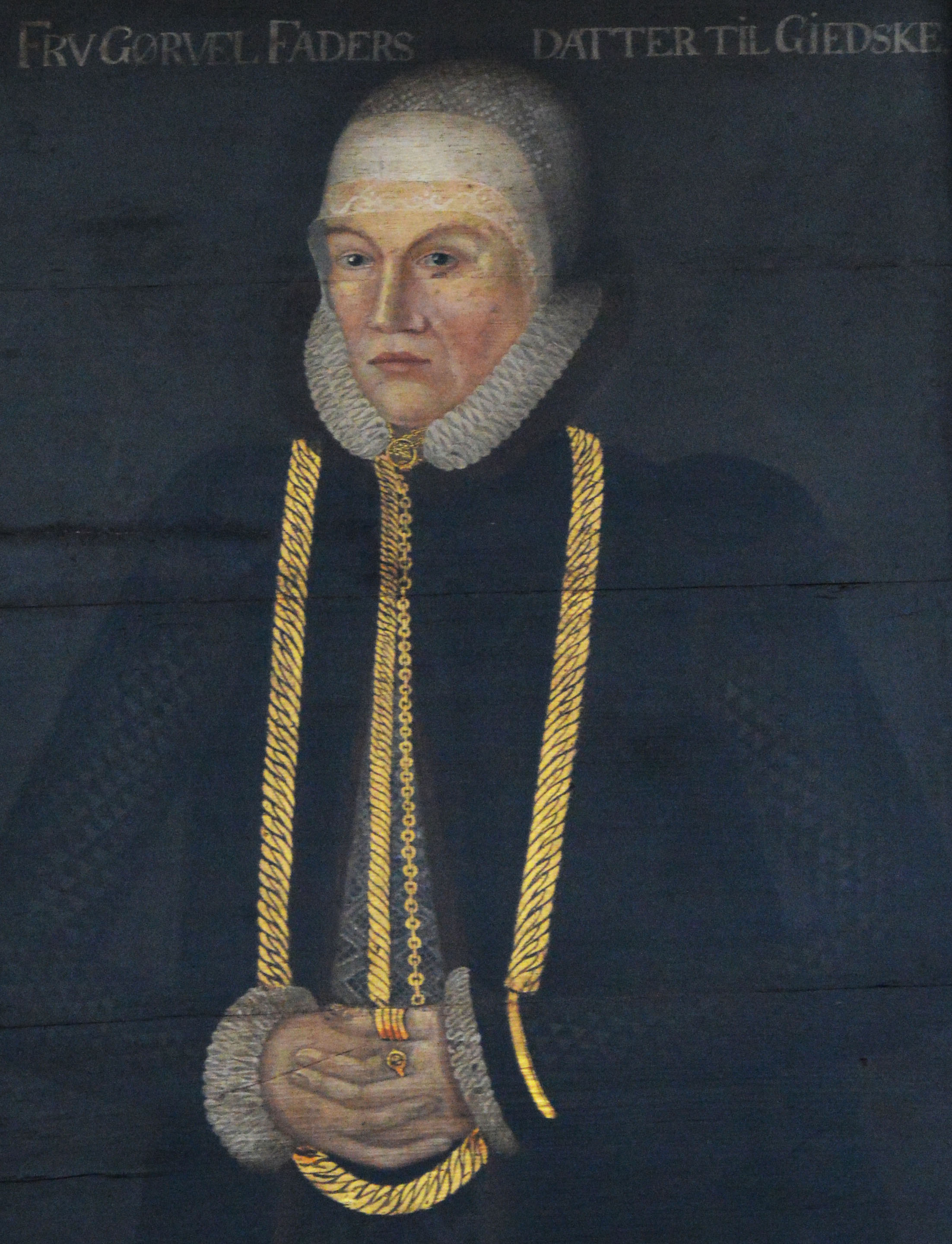 Görvel/Gørvel Fadersdotter/Fadersdatter (Sparre) (1517-1605), swedish-danish noble.